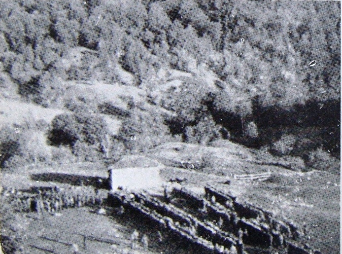 Forming of the Division 50th, village Mitrašinci, September 1944. This media file is produced by Wikipedian in Residence in Category:Wikipedian in Residence at DARM in 2016.